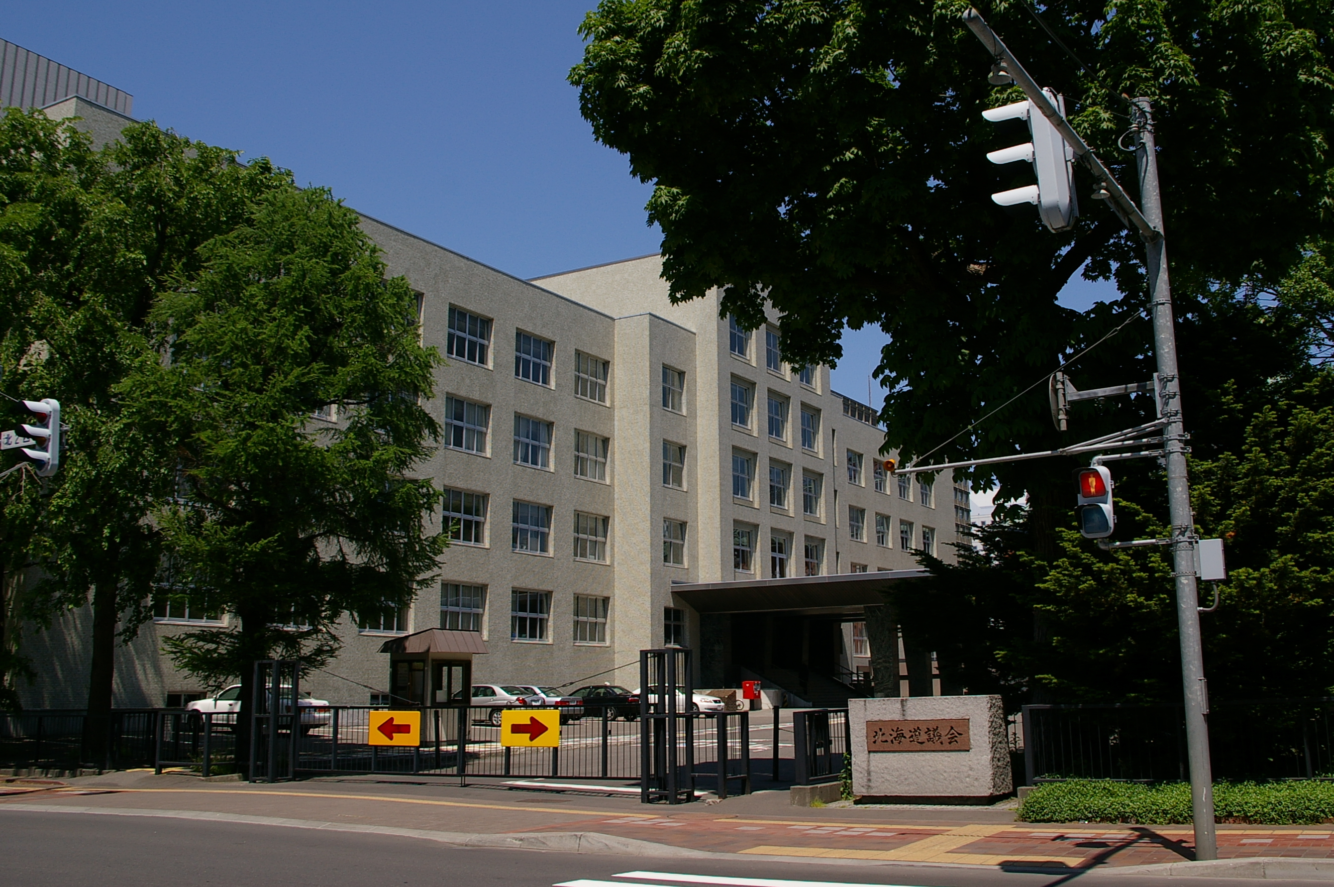 Photograph of Hokkaido legislative Assembly Building in Chuo-ku, Sapporo, Hokkaido, Japan.